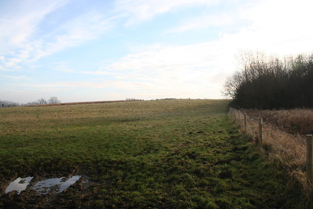 Abbey Hill. Site of Nocton Park Priory, founded c1150 for Augustinian Canons.